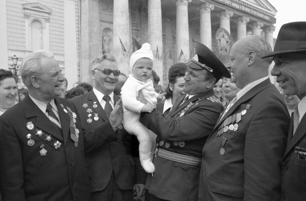 “Celebrating the 30th anniversary of VE Day”. WWII veterans at the entrance to the Bolshoi Theater during the 30th anniversary of VE Day.